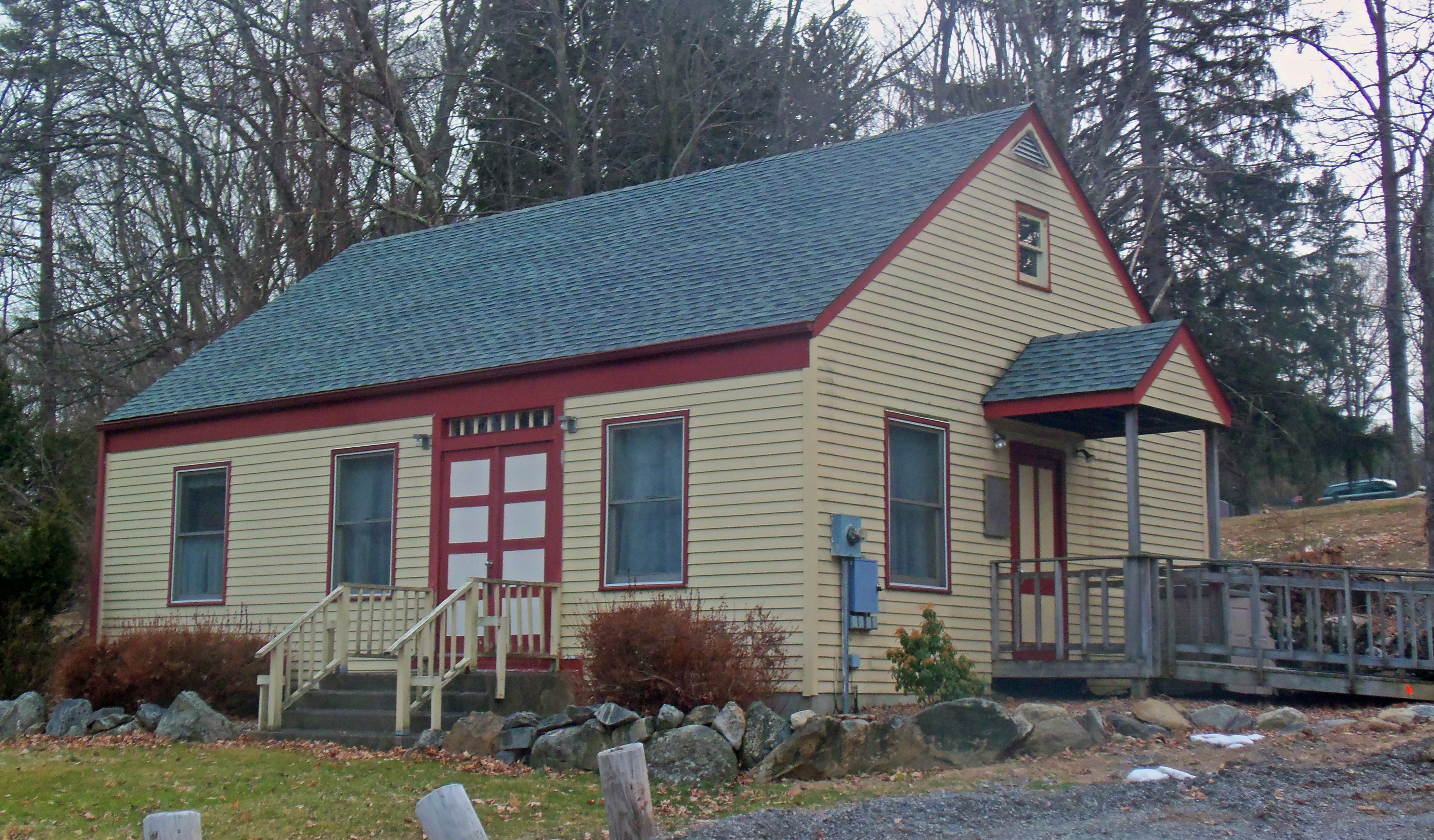 First Day School building at Amawalk Friends Meeting House in Yorktown Heights, NY. Note that despite its similarities to the main building this is not a contributing resource to the property's historic character, as it was built in the 1980s, and is thus not included in the property's listing on the National Register of Historic Places